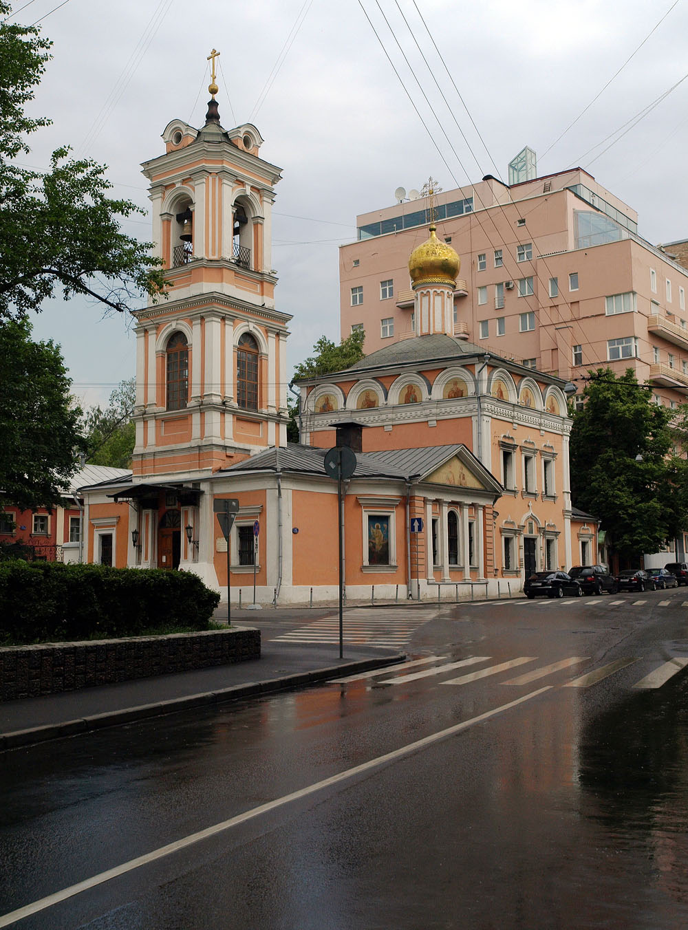 Church of the Renewal of the Temple of the Resurrection of Christ at Jerusalem in Bryusov Lane of Moscow (Presnensky District)